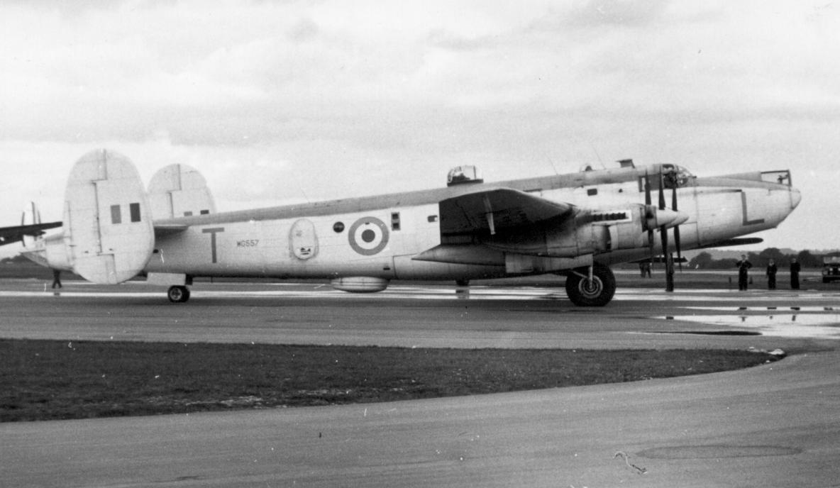 Avro 696 Shackleton MR.2 WG557 of 220 Squadron RAF at Blackbushe Airport in 1955